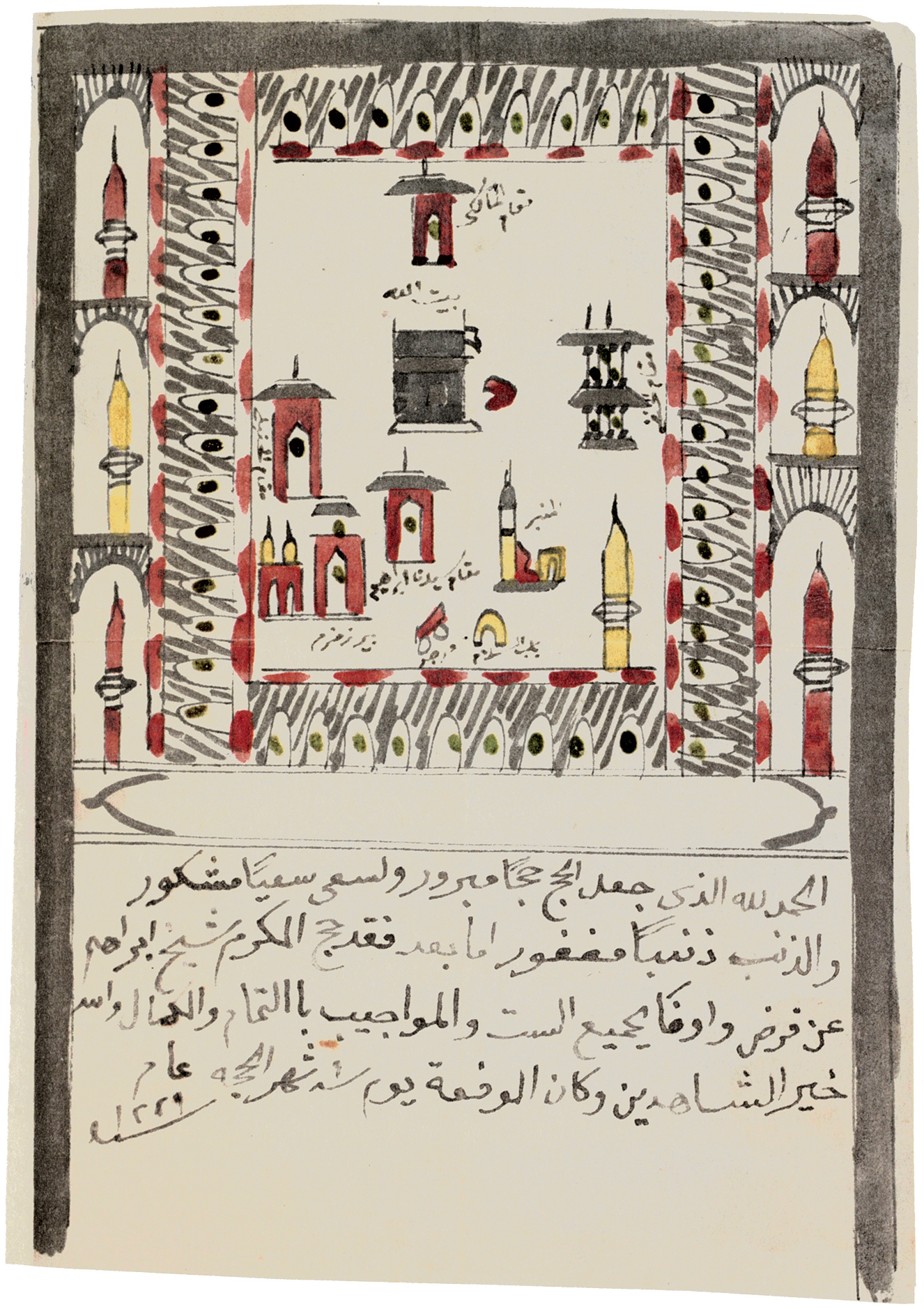 Hajj certificate of Sheikh Ibrahim (1814)